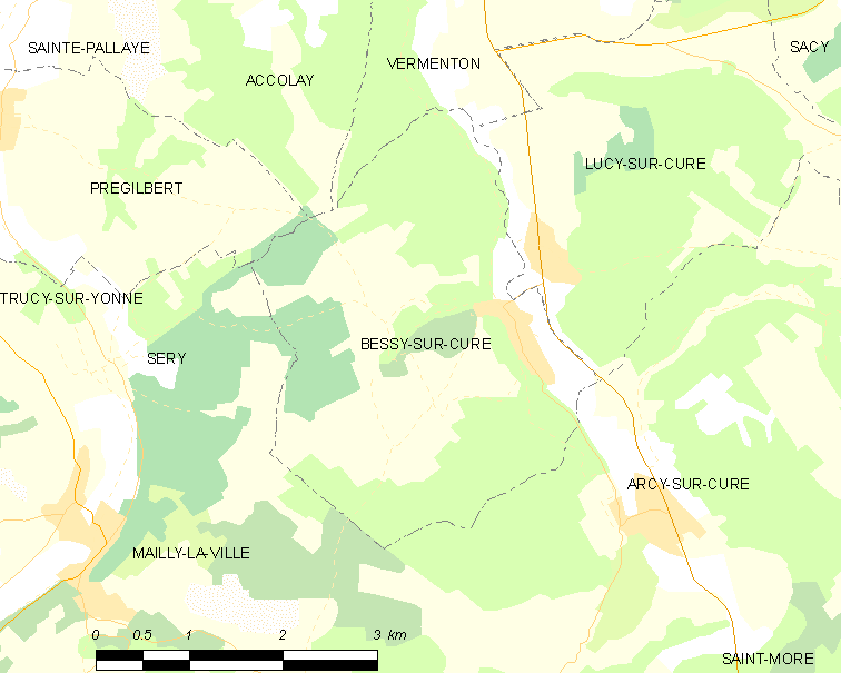 Map of French municipality Bessy-sur-Cure